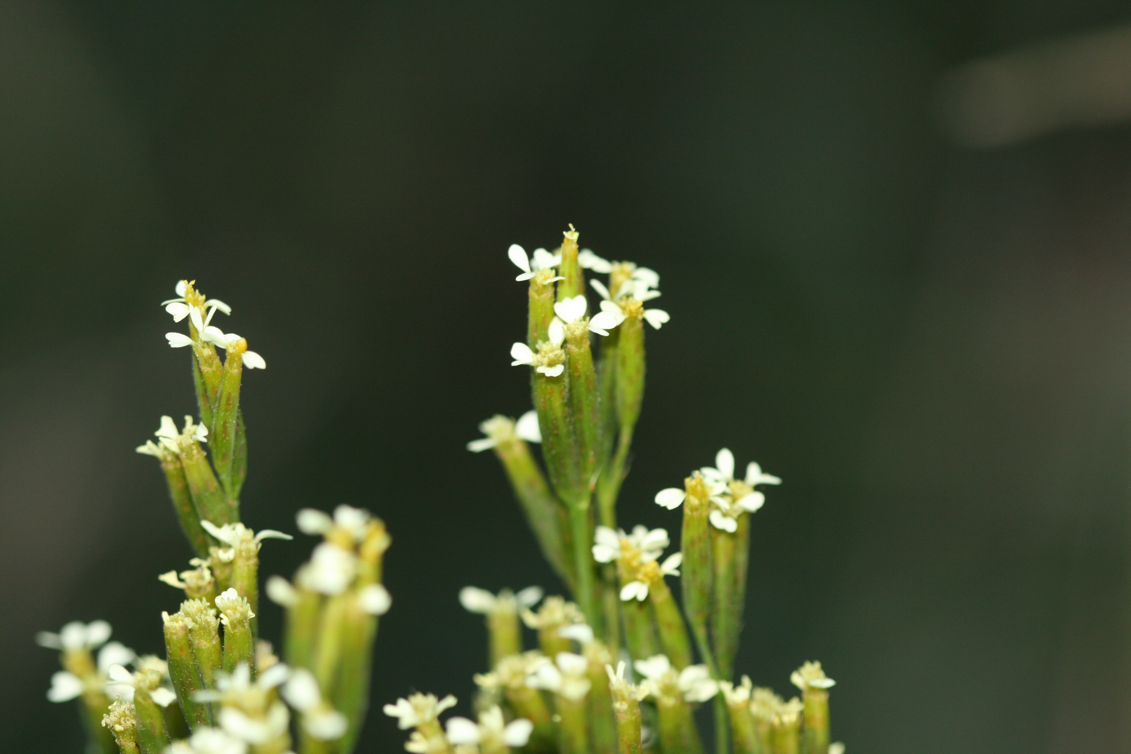 Stinking Roger (Tagetes minuta) an introduced weed near Toowoomba, Queensland, Australia. Photographed on 1 May 2009.